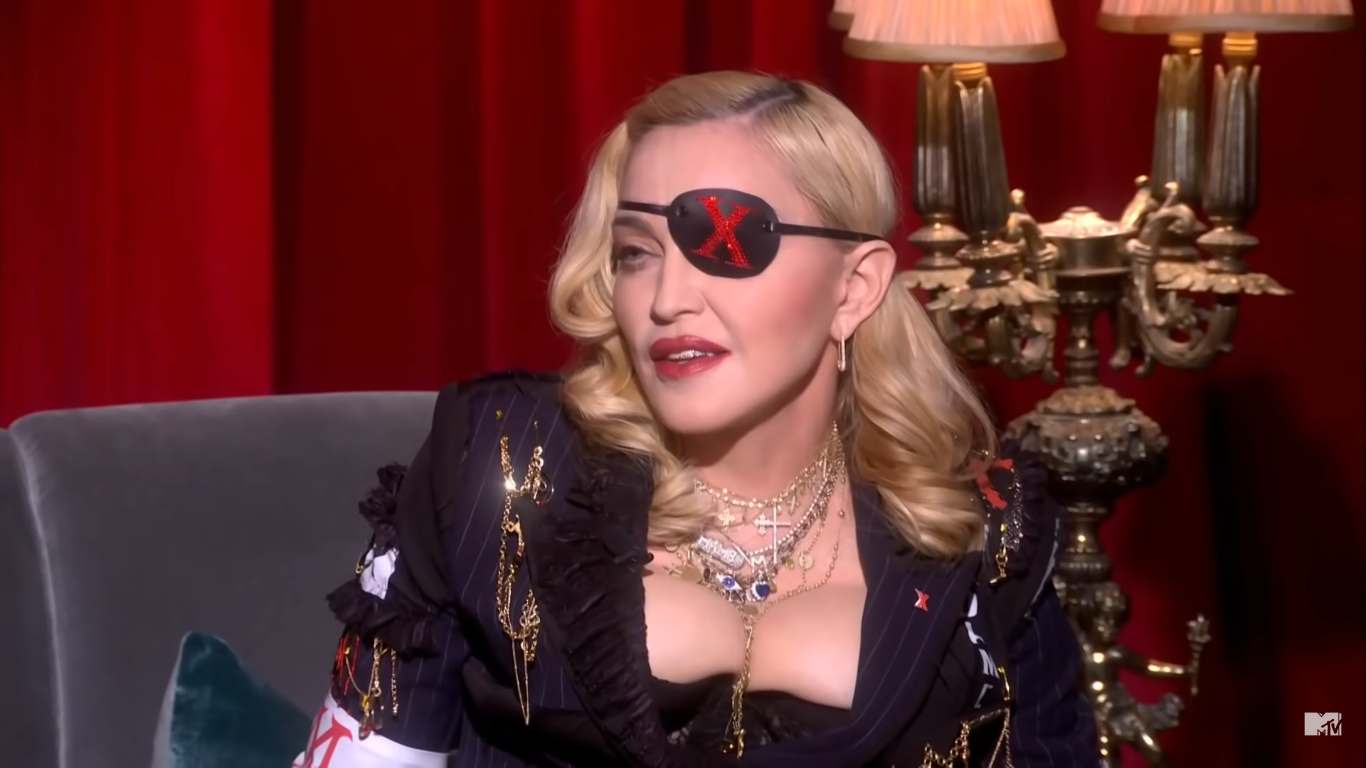 Madonna during the world premiere of her music video "Medellin" on MTV